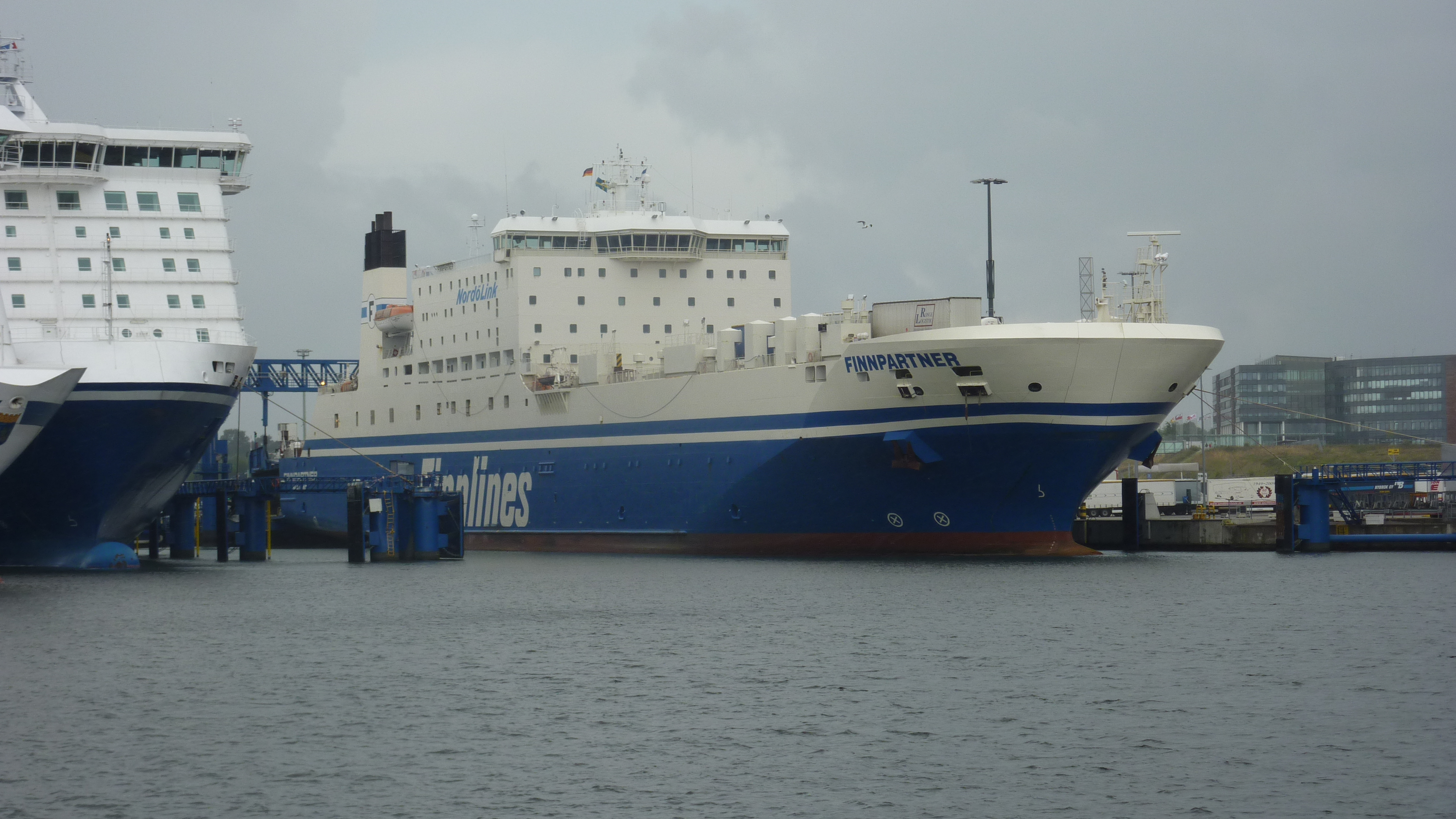 Finnpartner in Travemünde, Germany